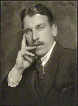 Arthur Bliss circa 1922. Photograph by Herbert Lambert (1881-1936). Image reproduced in and scanned from Chandos CD CHAN9896 (2001).